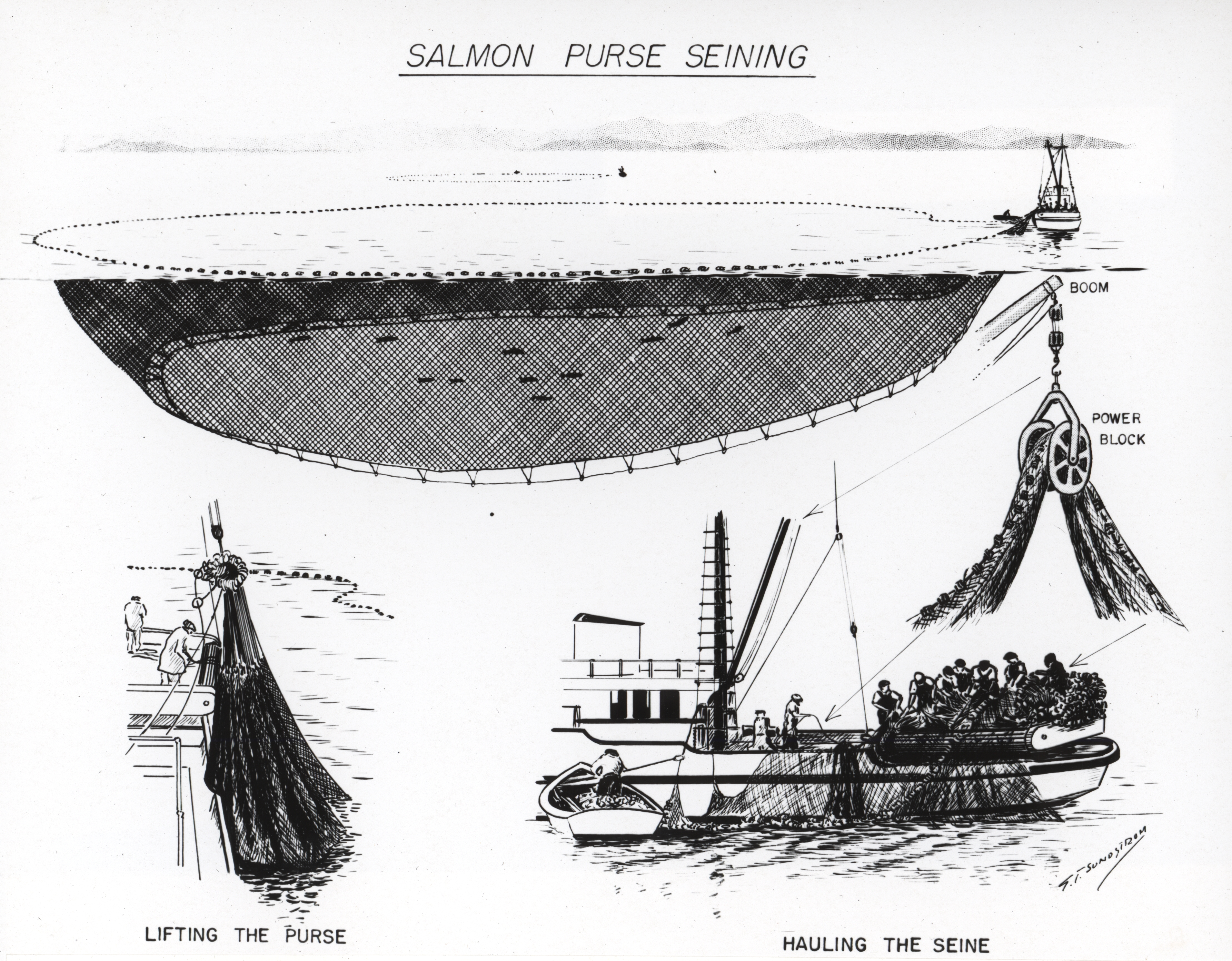 Diagram of salmon purse seining by S. T. Sundstrom Image ID: fish5875, NOAA's Historic Fisheries Collection